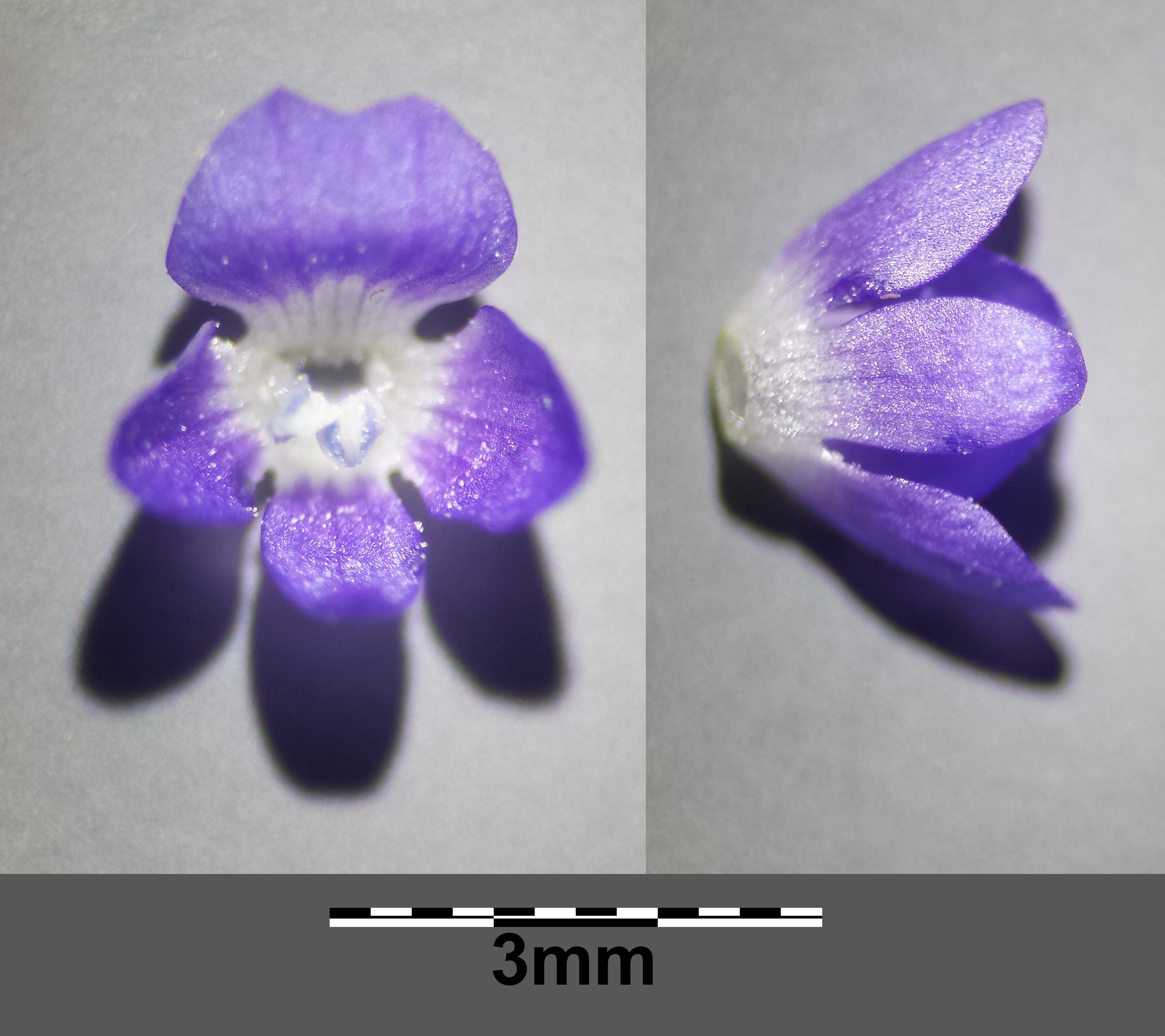 Corolla Taxonym: Veronica triloba ss Fischer et al. EfÖLS 2008 ISBN 978-3-85474-187-9 Location: Latschenberg near Altenmarkt im Thale, district Hollabrunn, Lower Austria - ca. 325 m a.s.l. Habitat: slope